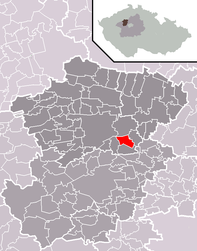 Location of Podlešín municipality within Kladno District and administrative area of Slaný as a Municipality with Extended Competence.